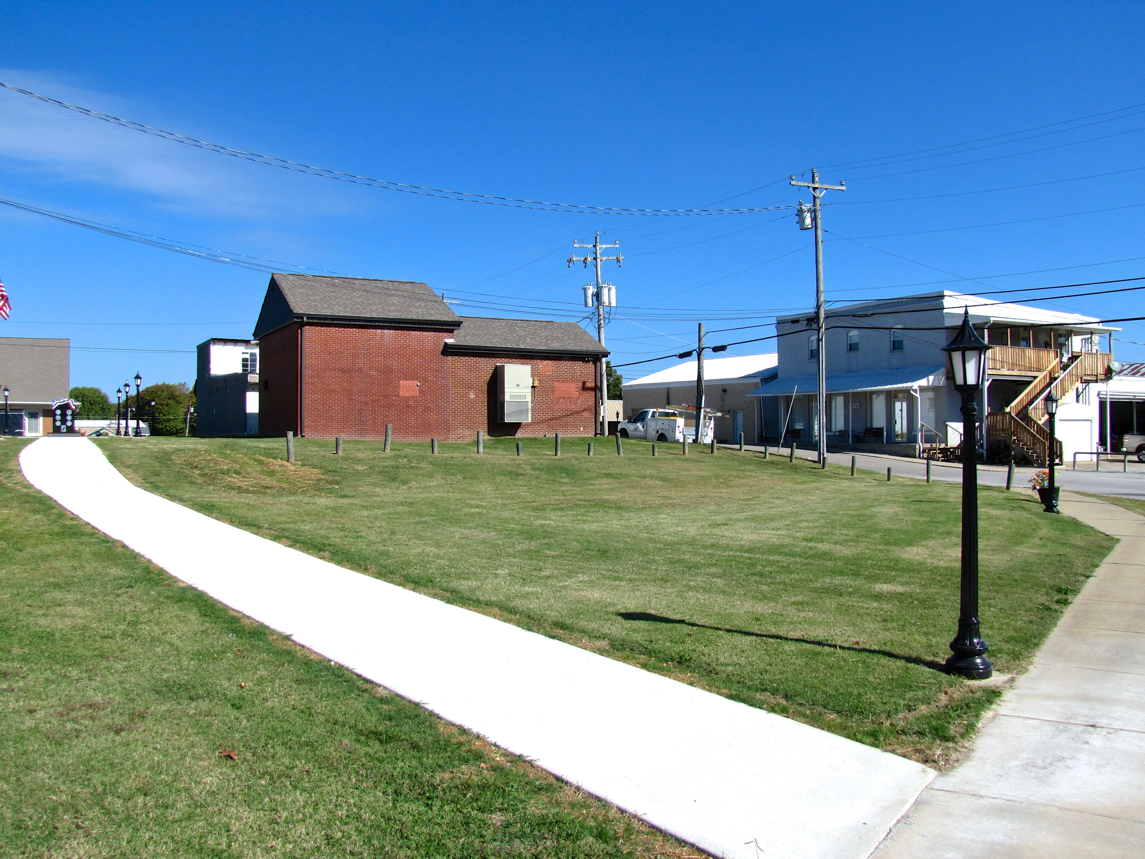 Buildings at the corner of Depot Street and 3rd Avenue in Collinwood, Tennessee, United States.